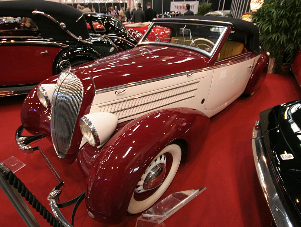 Steyr 220 Glaeser Sport Cabriolet 1937